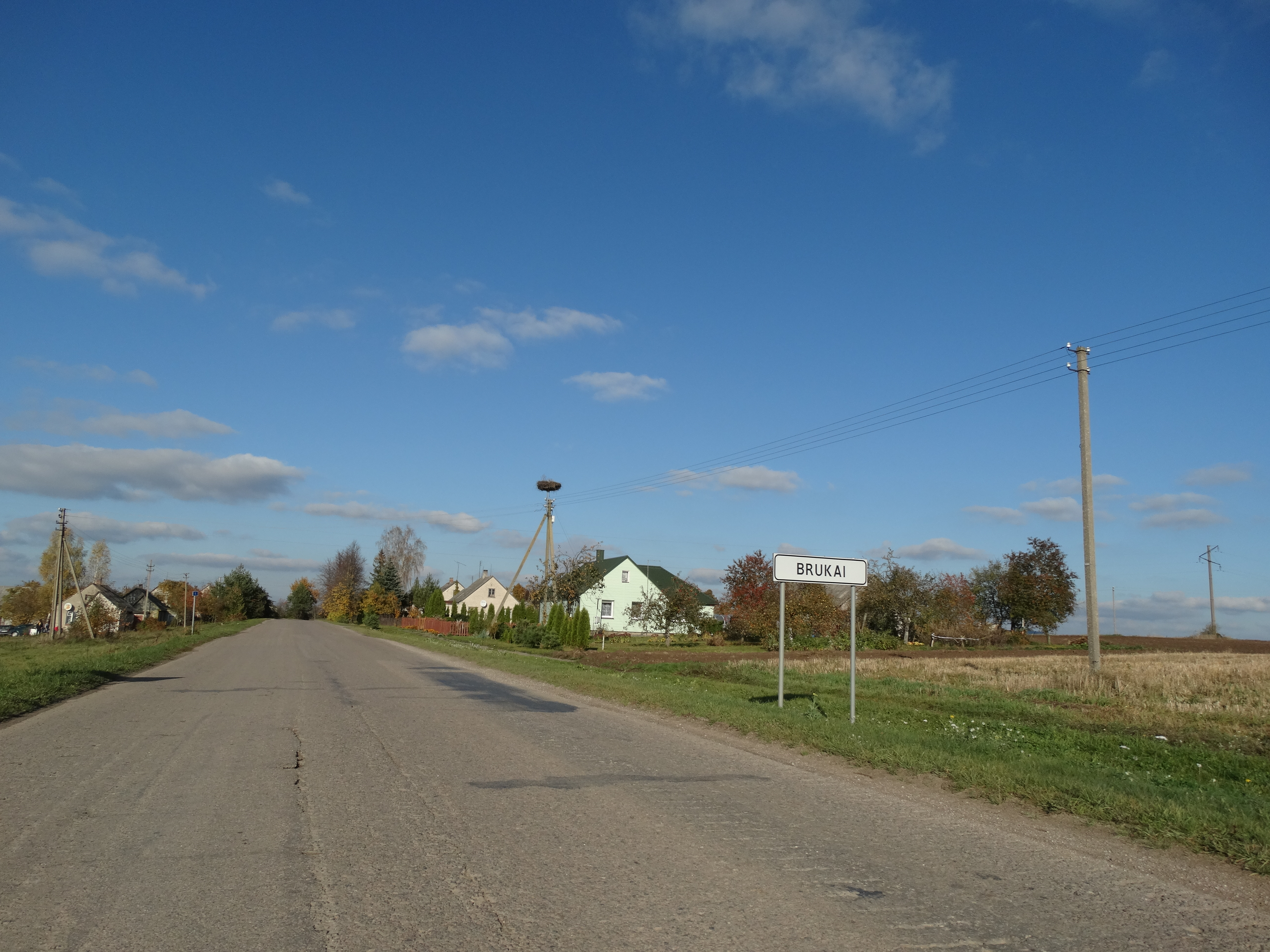 Sign, Brukai, Kalvarija Municipality, Lithuania